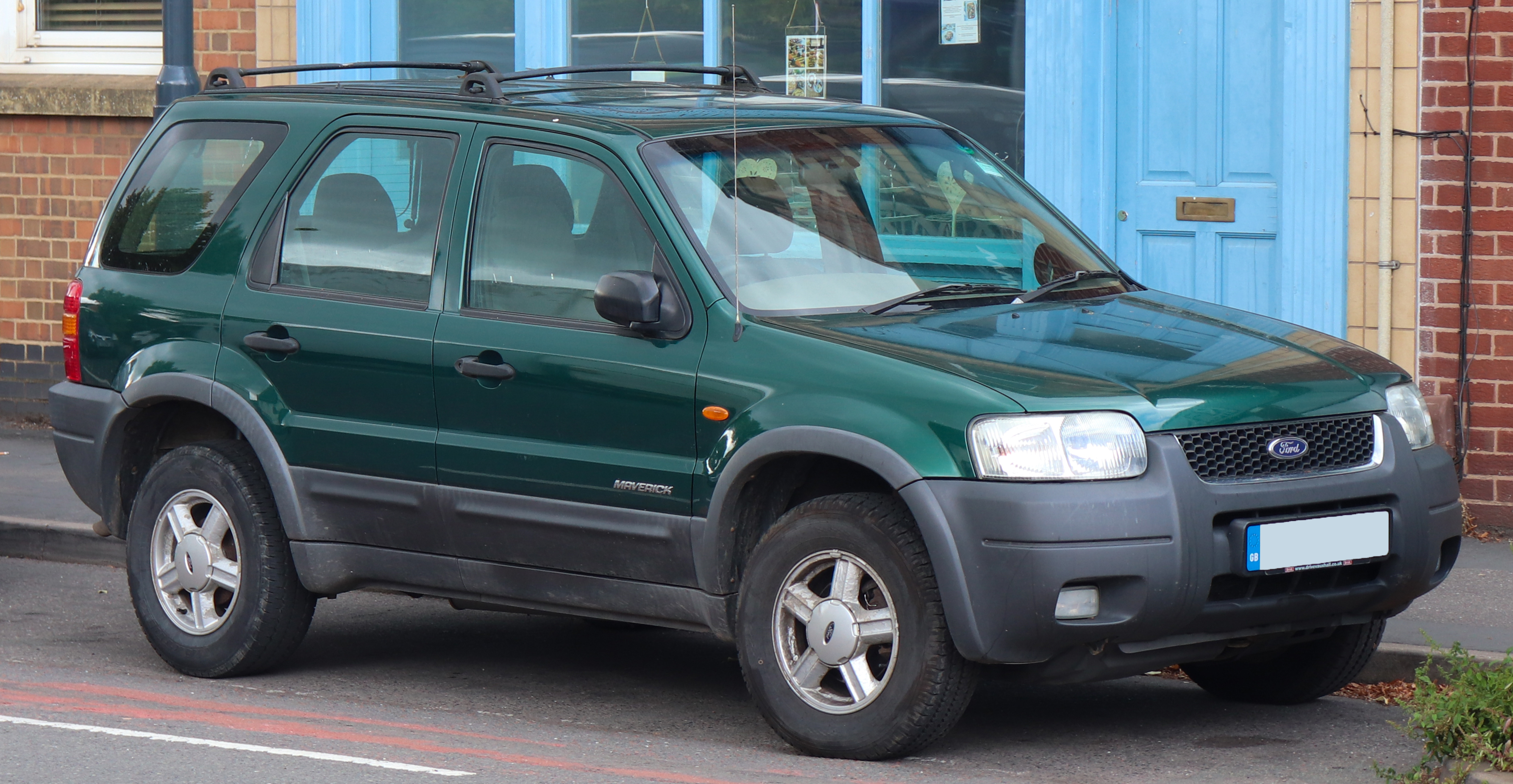 2002 Ford Maverick XLT Zetec 2.0 Front Taken in Warwick